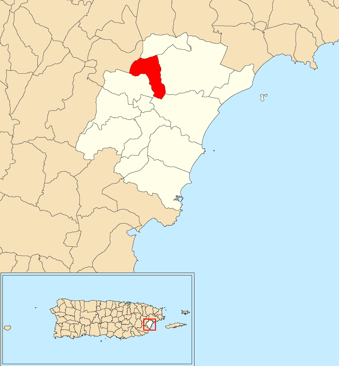 Collores, Humacao, Puerto Rico locator map